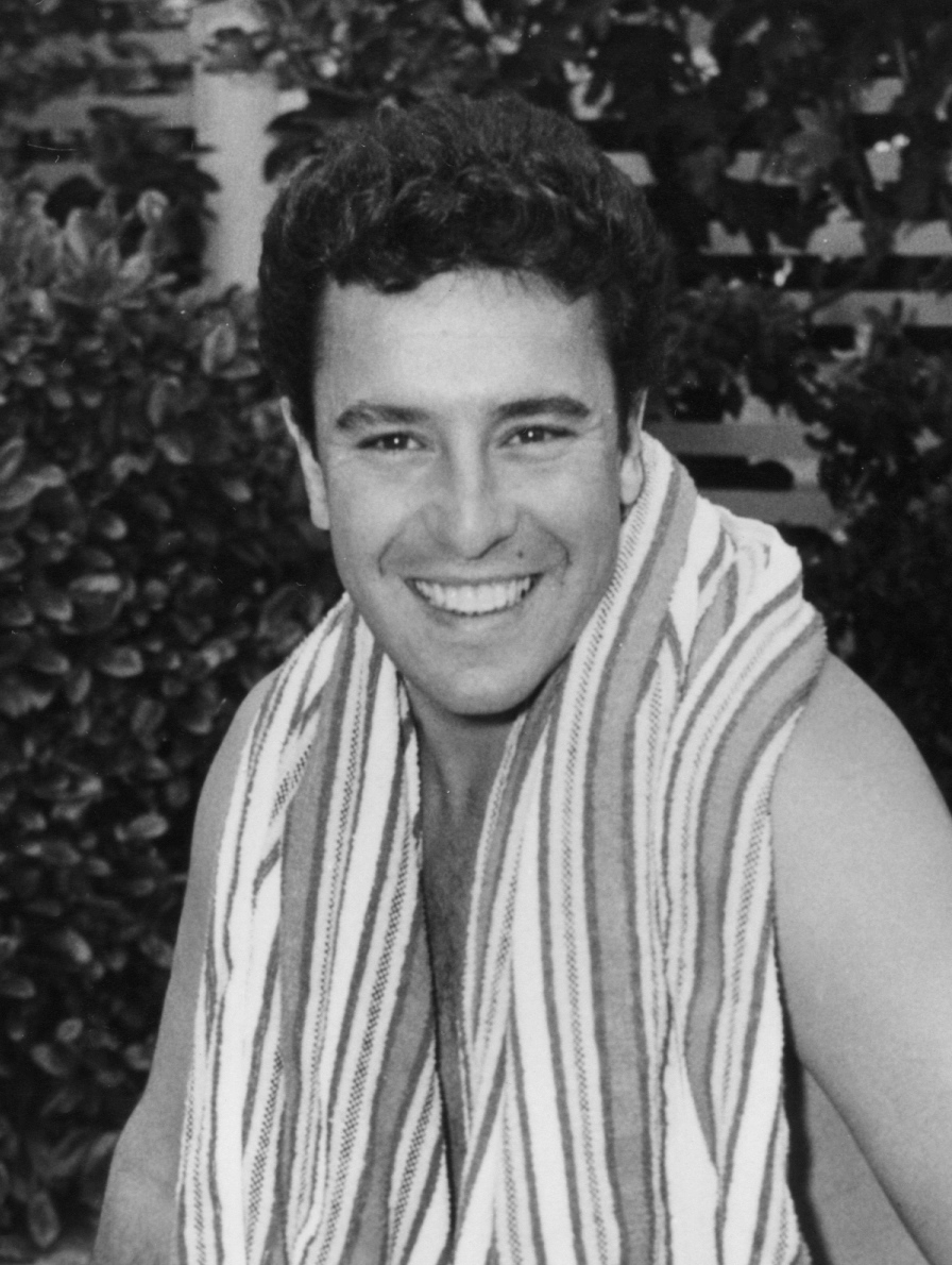 Studio publicity still